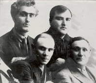 Sidgi Ruhulla, Hajiagha Abbasov, Abbas Mirza Sharifzade and Mirza Agha Aliyev